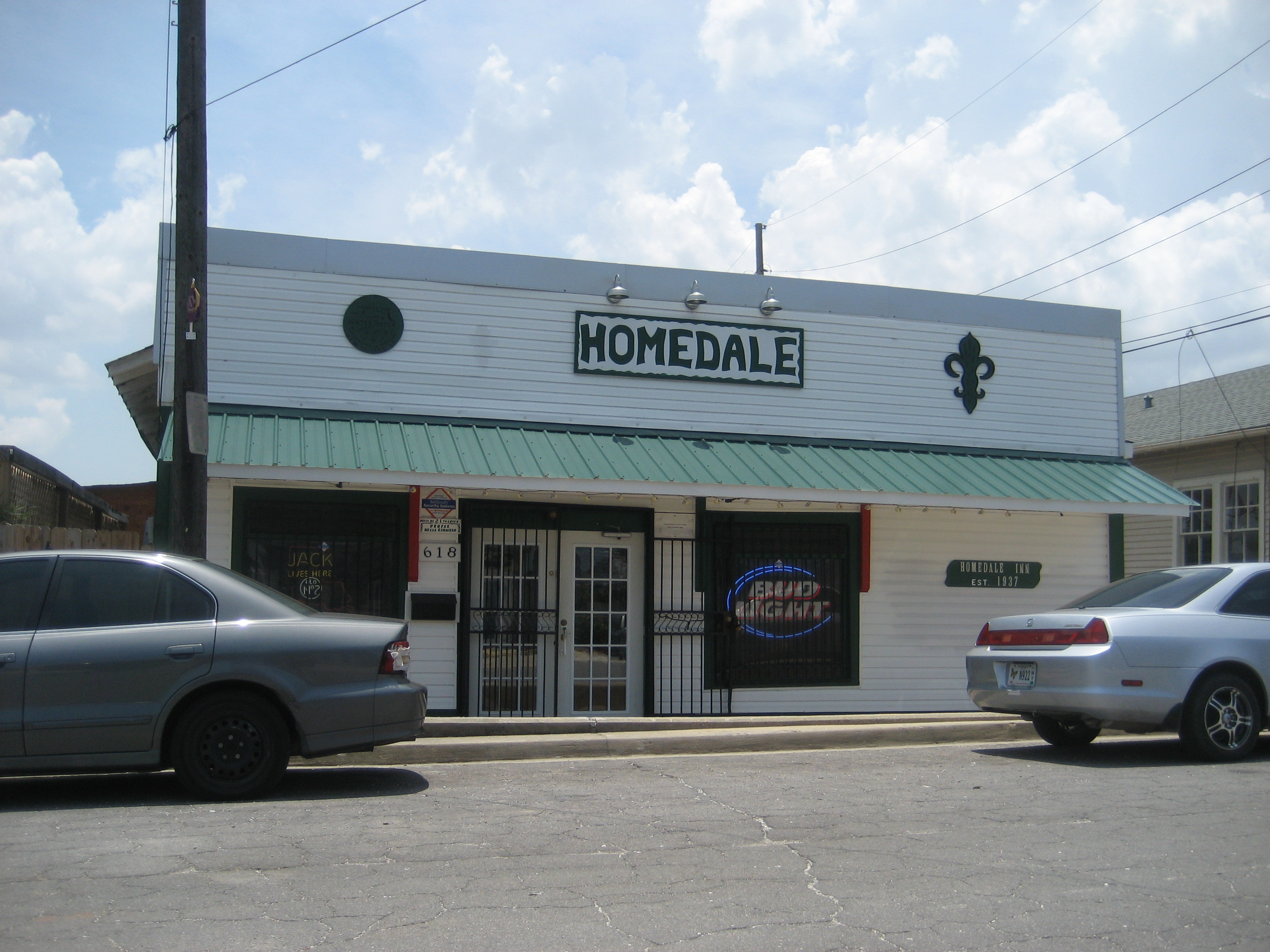 "Homedale Inn" neighborhood bar in the Navarre neighborhood of the Lakeview section of New Orleans.